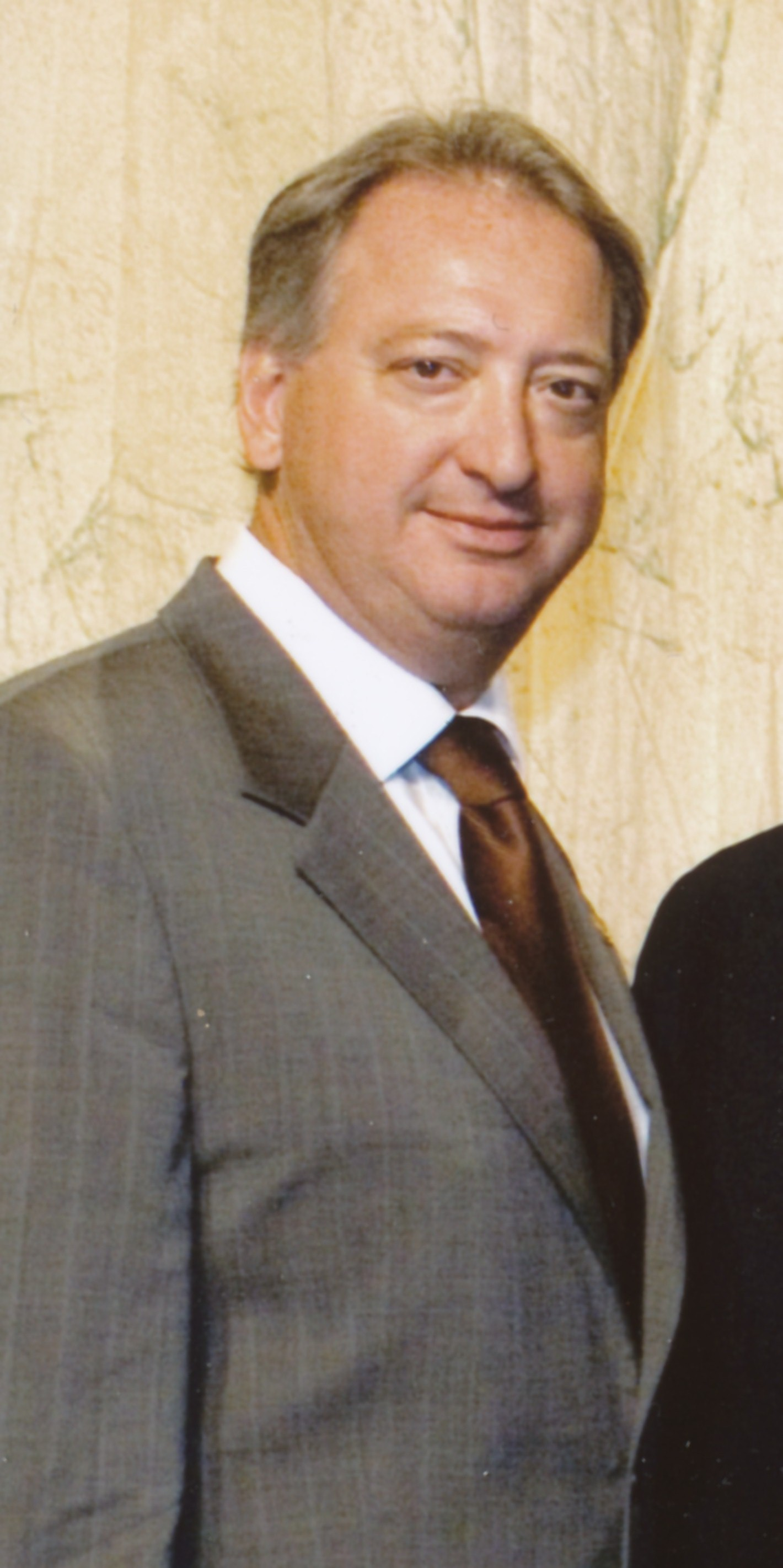 Claude Dauphin, president of the executive of Montreal, during an event of the Conférence régionale des élus de Montréal.